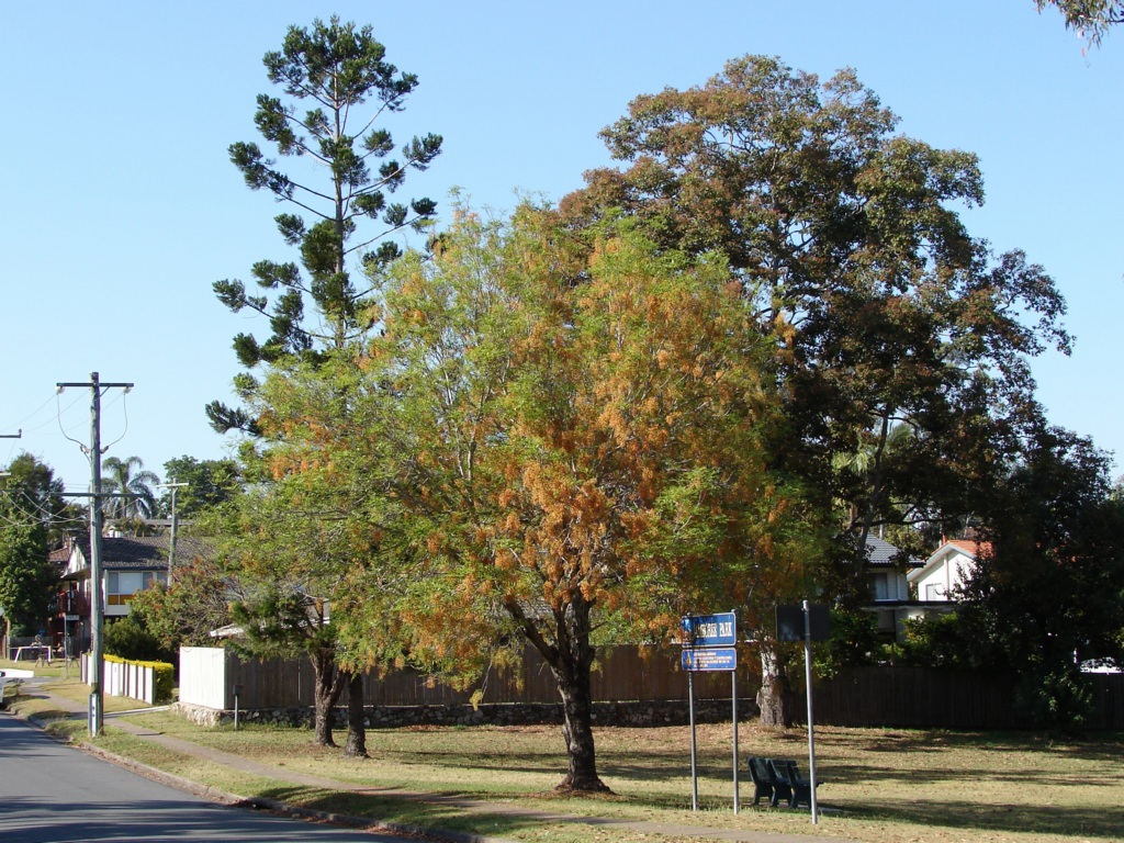 Cassia brewsteri var. brewsteri Native to Eastern Australia (QLD, NSW). Common names: Leichhardt Bean, Native Laburnum, Cigar Cassia. Photo taken in Jamboree Park in Jamboree Heights, Brisbane, Australia